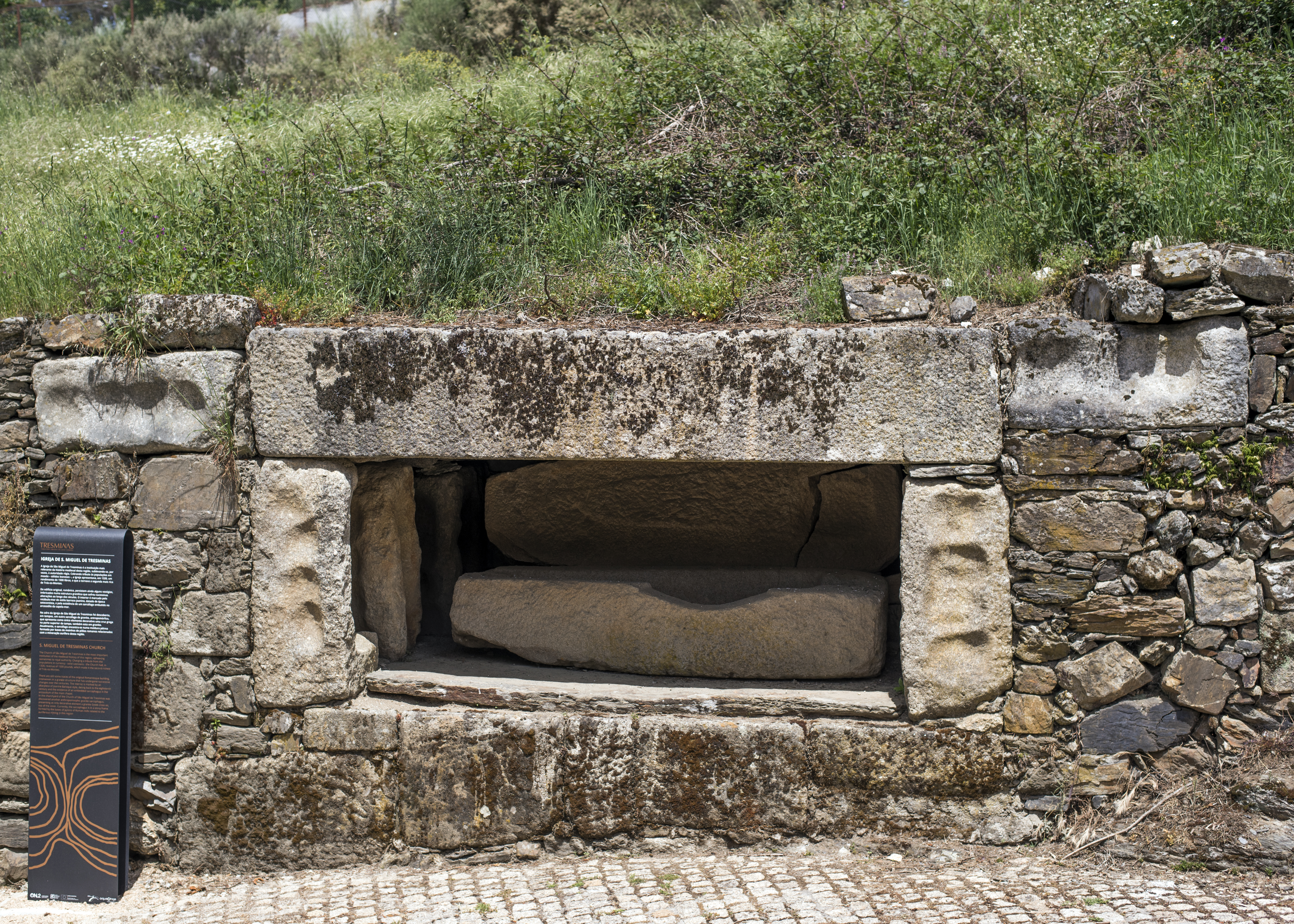 Christian sarcophagus set into a frame that is built with Roman anvil stones spoliated from the ancient mines in the vicinity. The regular indentations in the stone surface indicate the use of mechanical trip hammers for crushing ore. To be seen outside the São Miguel de Tresminas church in northern Portugal.